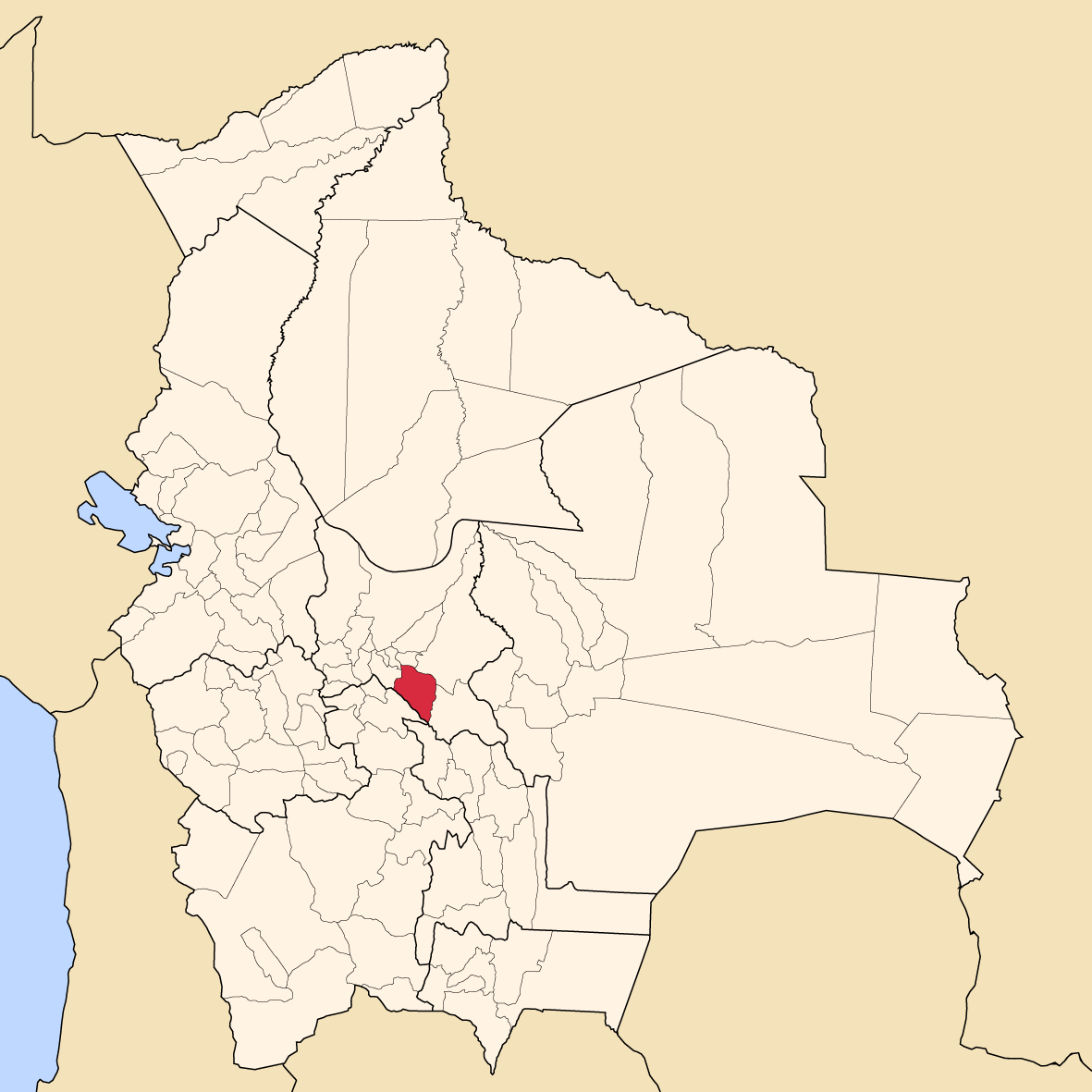 Map of Bolivia showing Mizque province